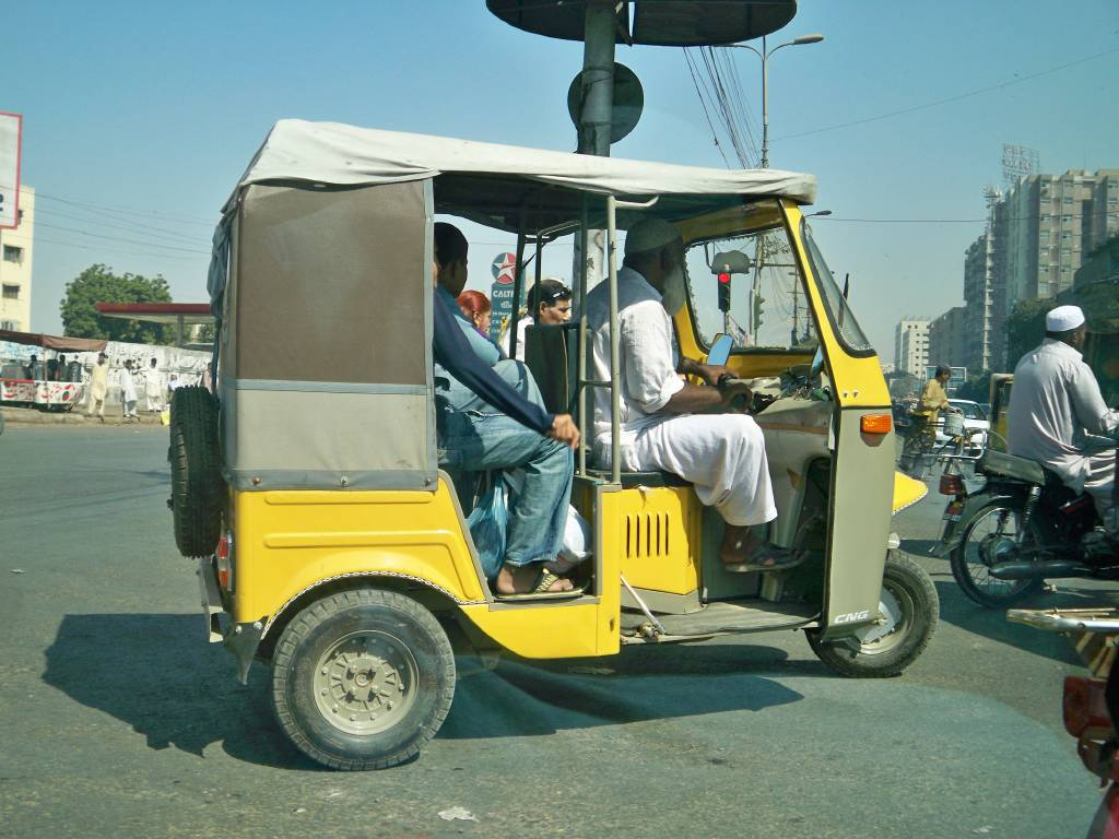 Karachi streets and traffic